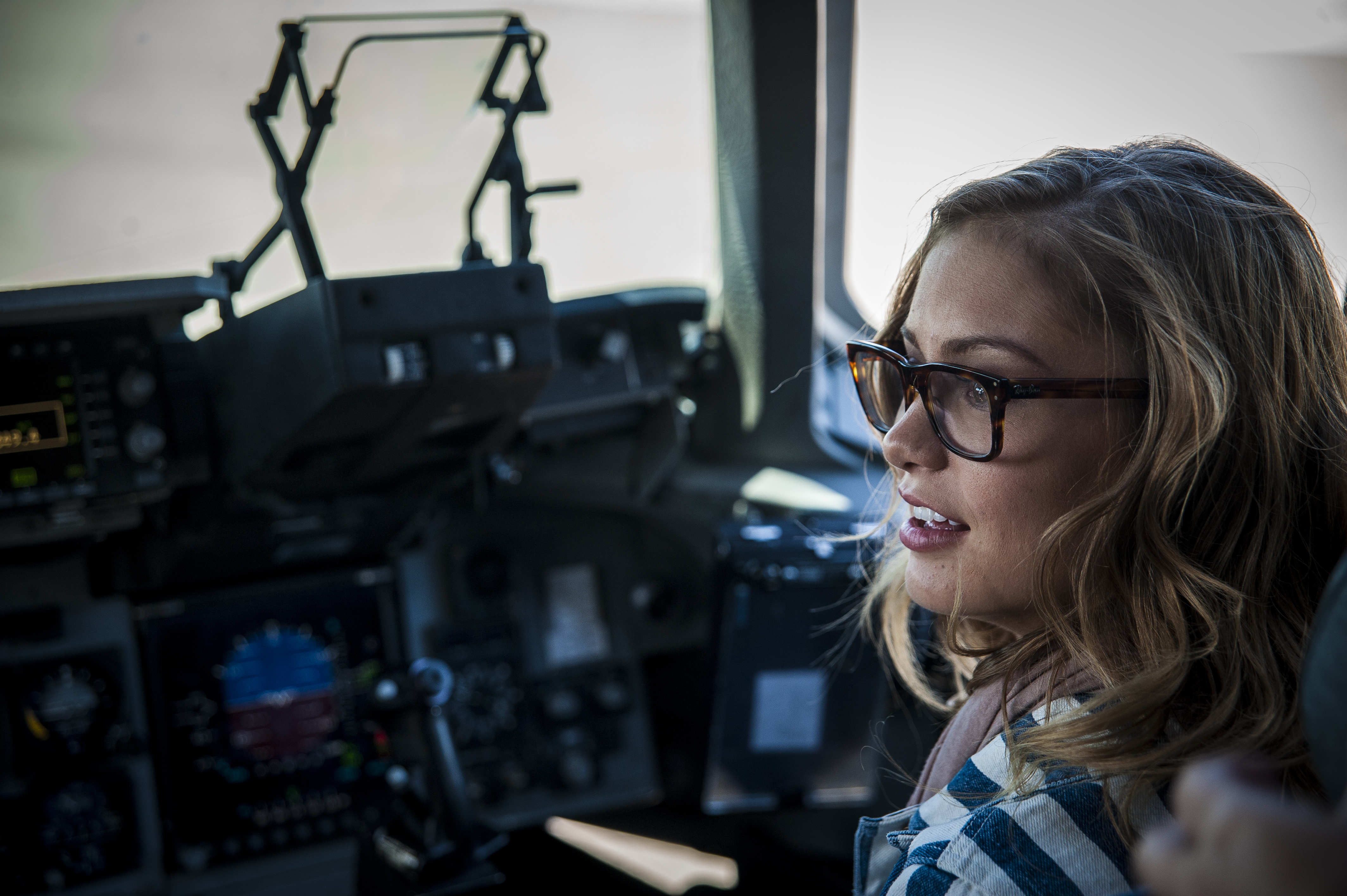 Army Wives actress Elle McLemore sits in the cockpit of a C-17 Globemaster III during a tour of the aircraft April 26, 2013, at Joint Base Charleston –Air Base, S.C. Army Wives tells the story of four women and one man who are brought together by their common bond - they all have military spouses. The series is based on the book "Under the Sabers: The Unwritten Code of Army Wives" by Tanya Biank and is produced by ABC Television Studio and The Mark Gordon Company. (U.S. Air Force photo/Senior Airman Dennis Sloan)